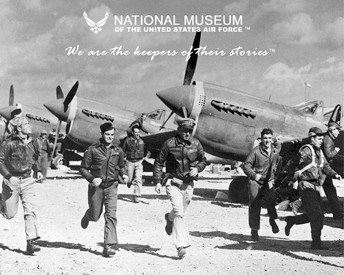 This photo showing a group of P-40 pilots in the CBI running to their aircraft is the latest NMUSAF wallpaper with the 'We are the keepers of their stories' theme...